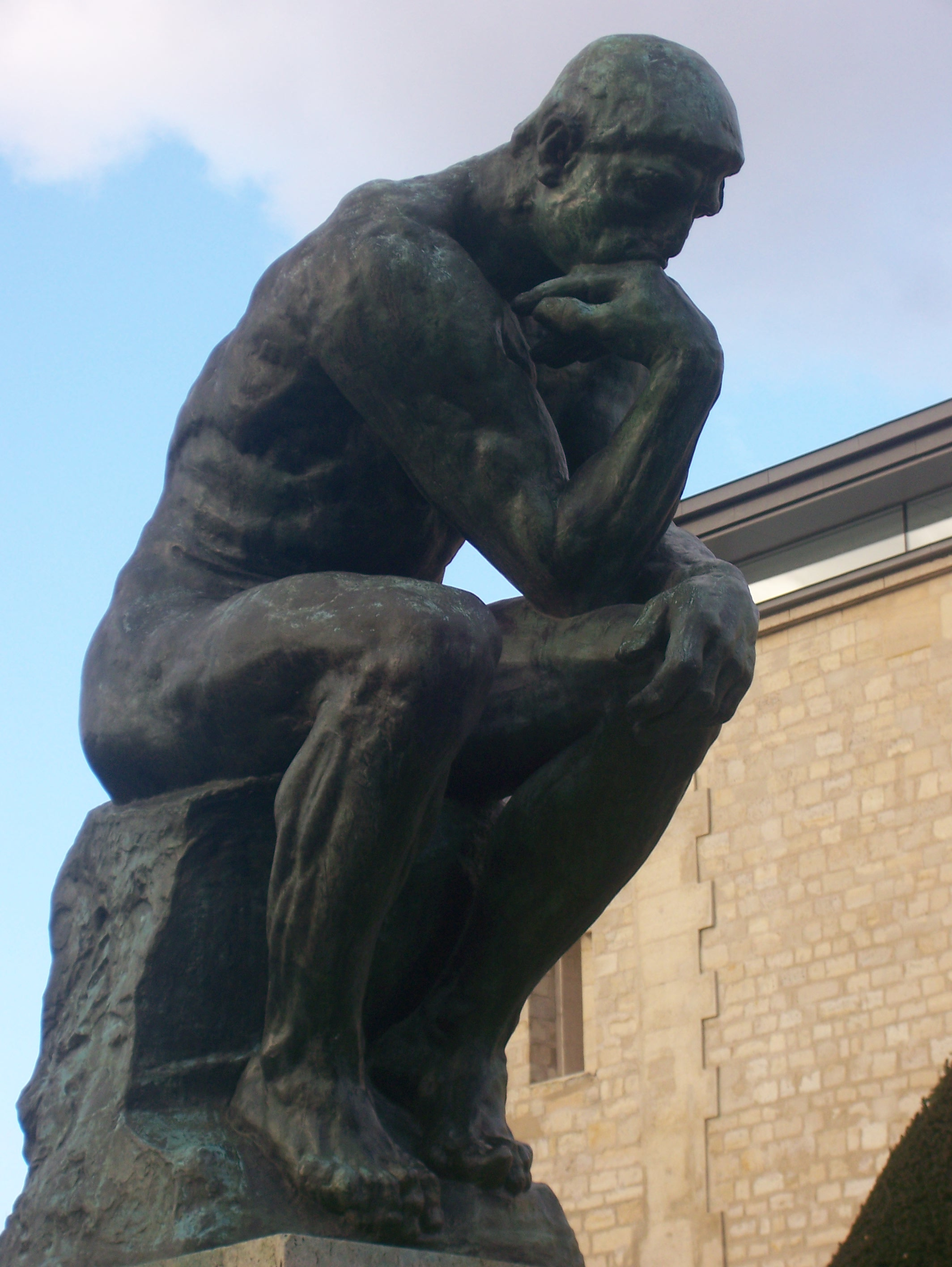 Rodin's The Thinker at the Musée Rodin.